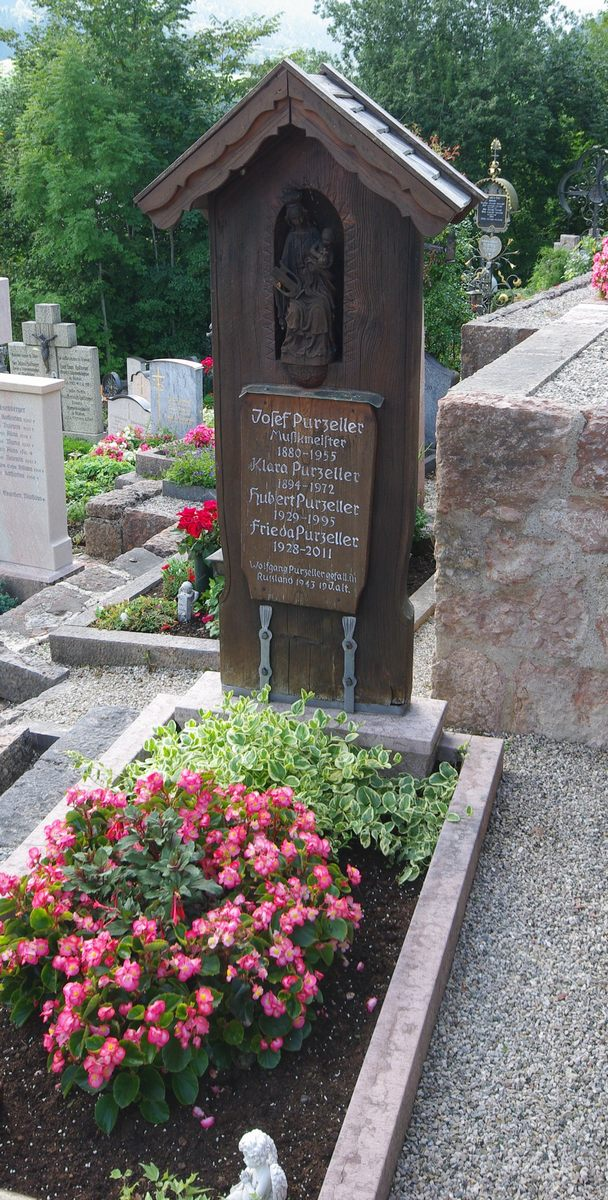 Grabmal auf dem Bergfriedhof in Ruhpolding This is a photograph of an architectural monument.